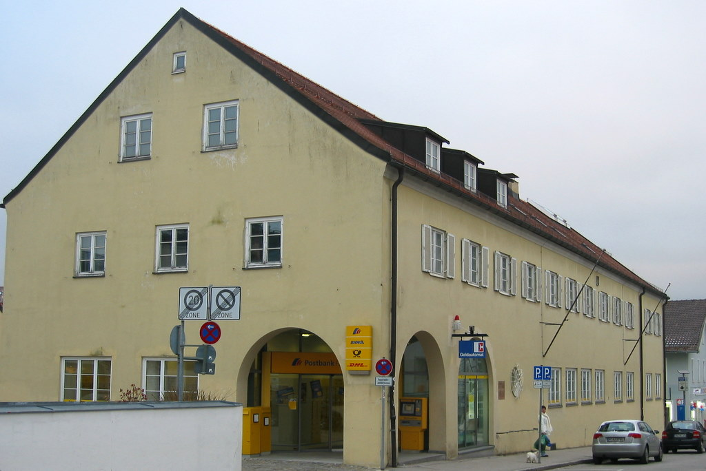 Post office Bad Tölz